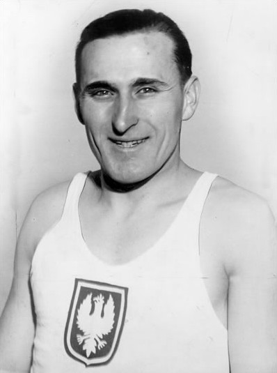 Janusz Kusocinski, Polish sportsman, executed by Nazi-Germans in 1940